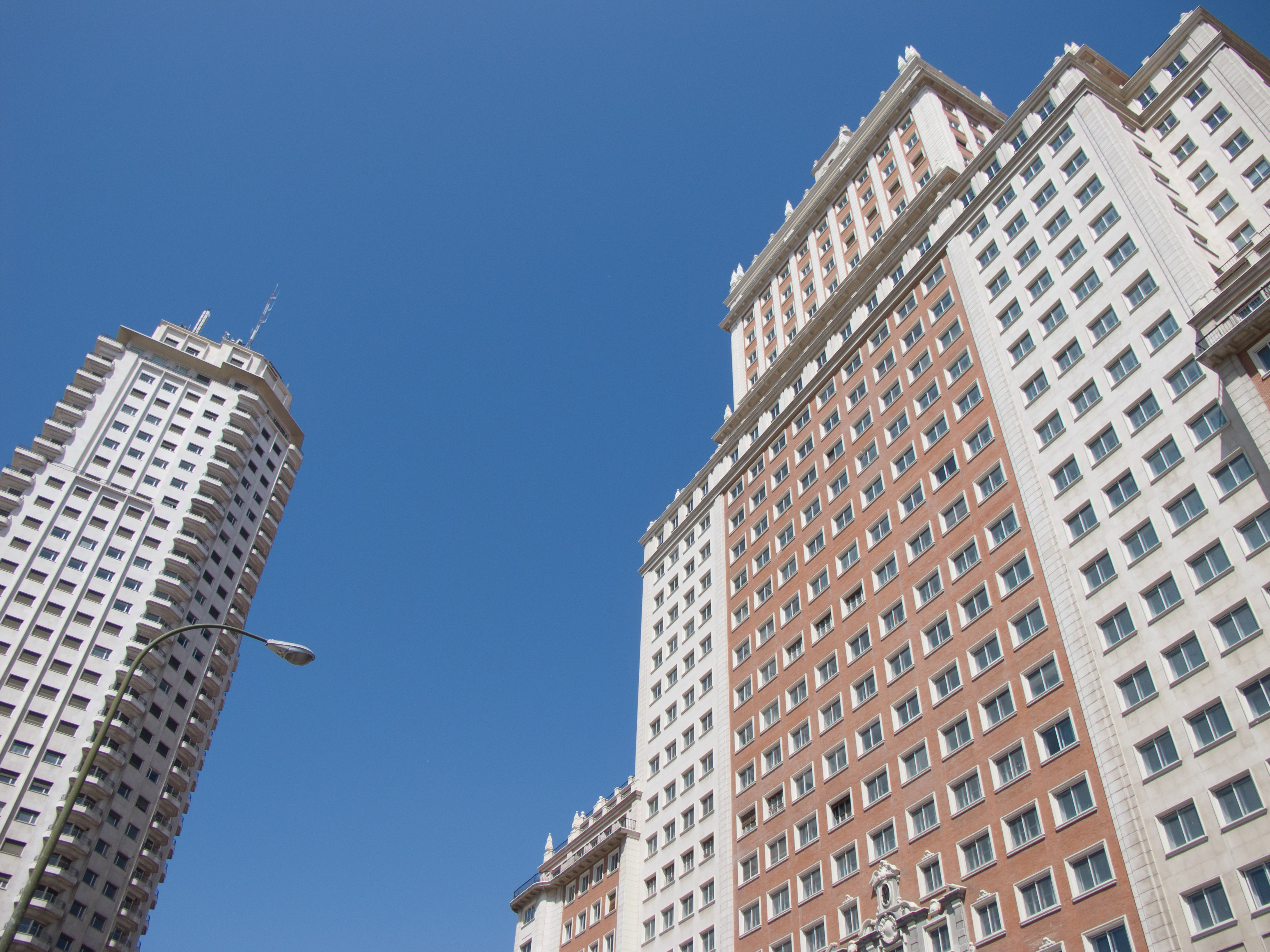 Tower of Madrid and España Building, España Sq., Madrid, Spain.